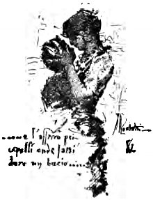 Image from book Novelle Rusticane by Giovanni Verga